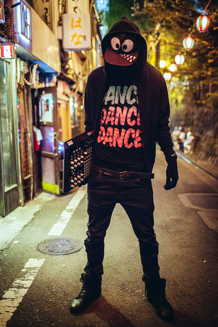 Naeleck in Tokyo